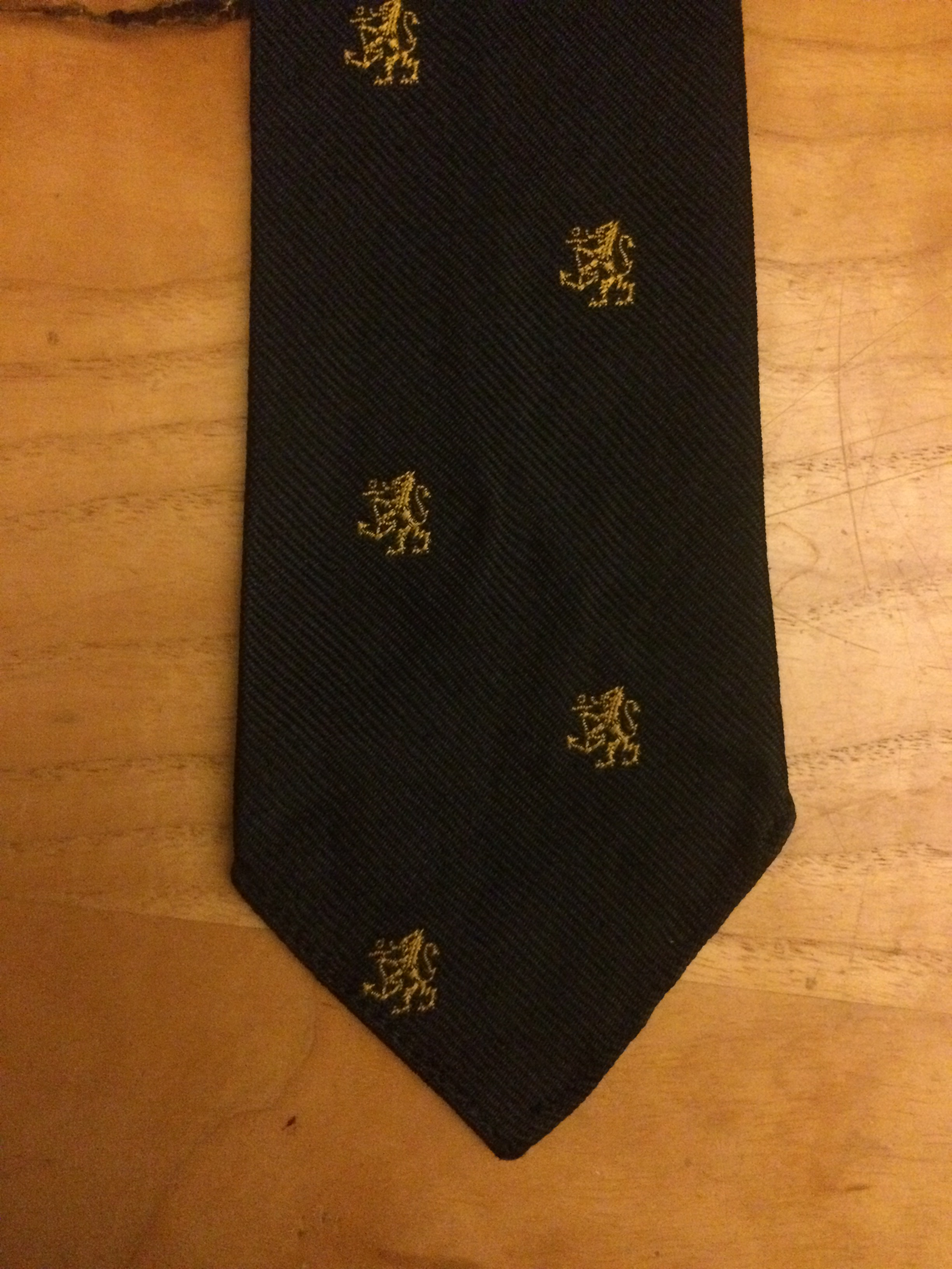 Verenigingsdas voor leden Hollandia Roeiclub